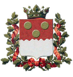 Coat of arms of Batum Province, Russian Empire